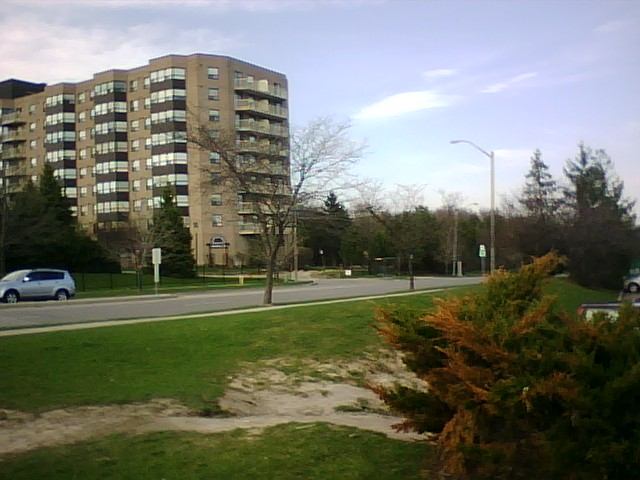 An apartment in the community of Raymerville - Markville East, Ontario.